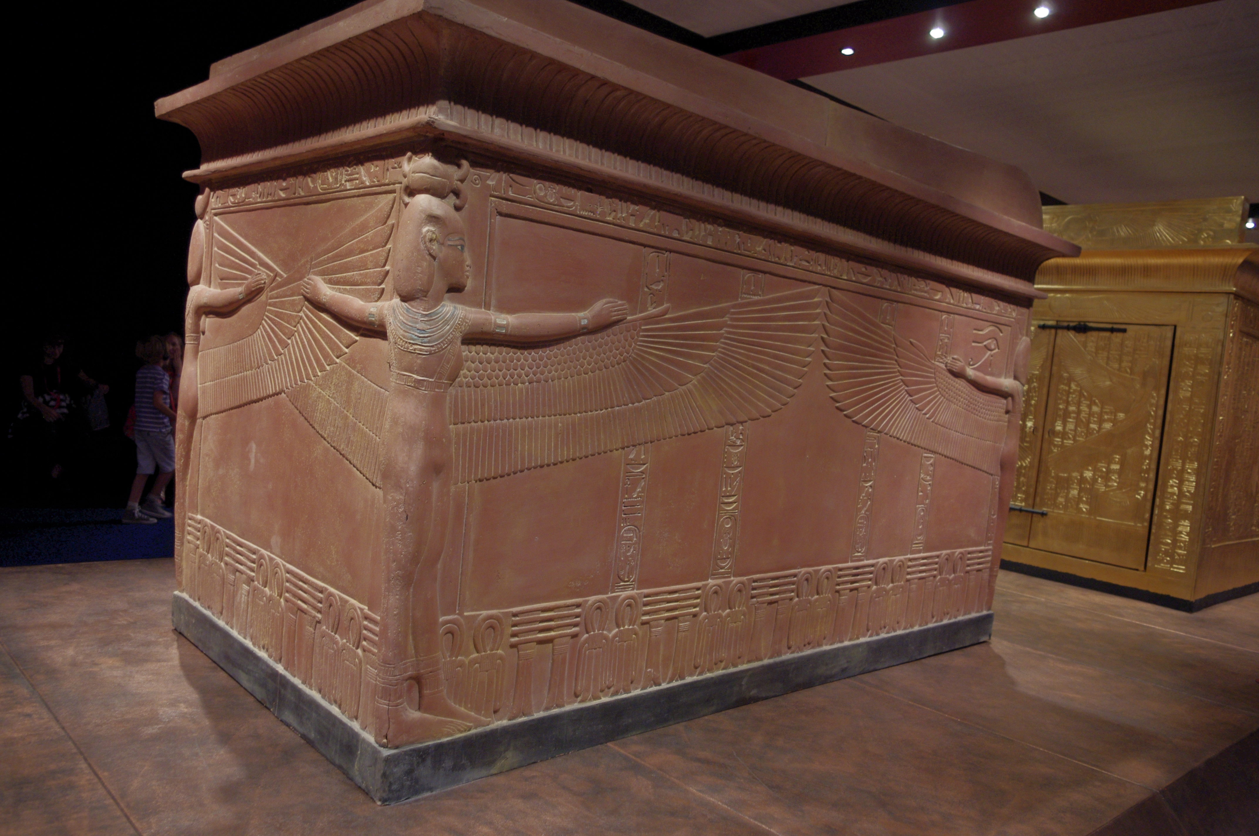 Treasure of Tutankhamun, exposition in Paris 2012. Sarcophagus. The original quartzite with a tild of granite is still in the tomb.